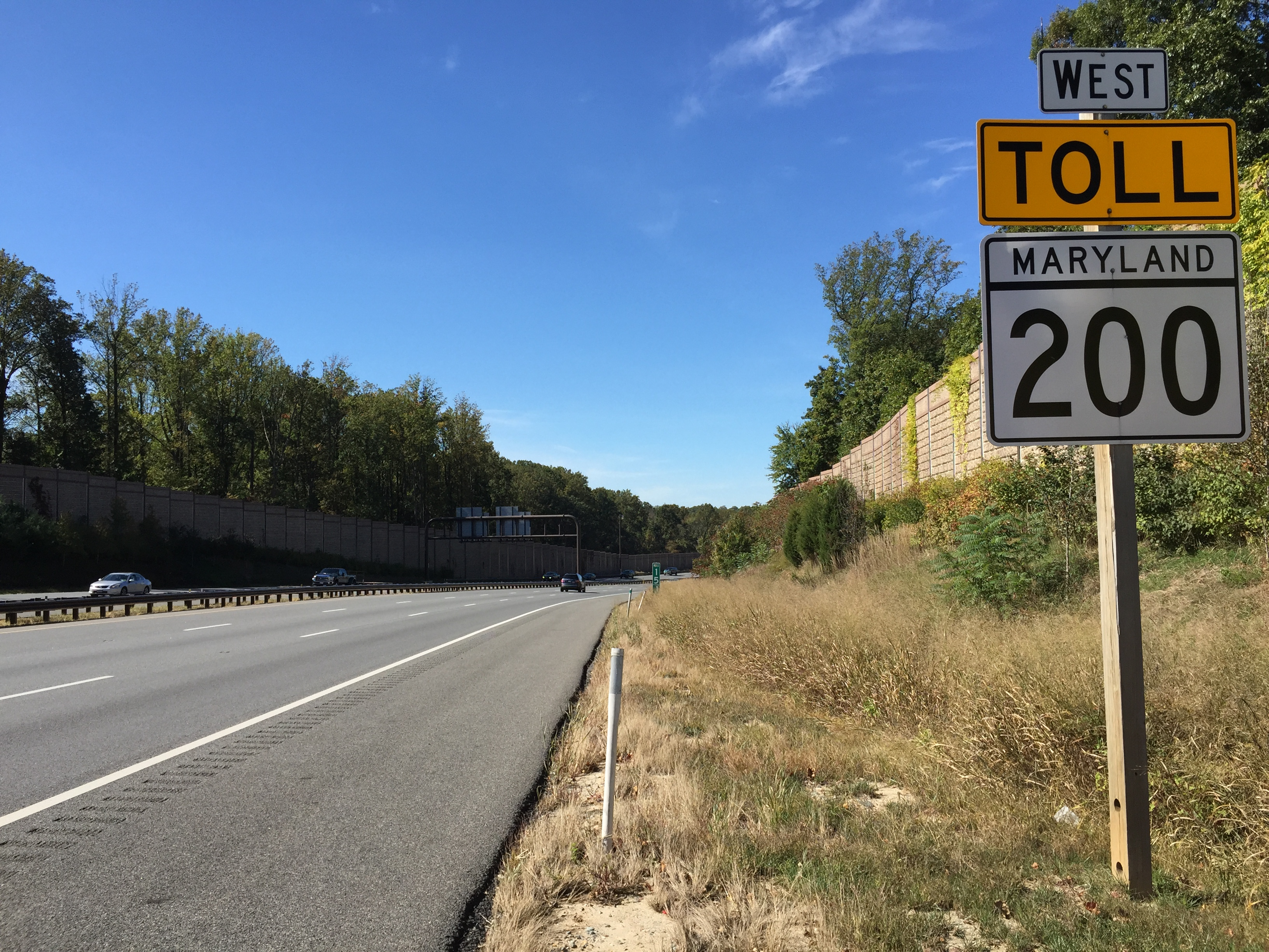 View west along Maryland State Route 200 (Intercounty Connector) just west of U.S. Route 29 (Columbia Pike) in Fairland, Montgomery County, Maryland